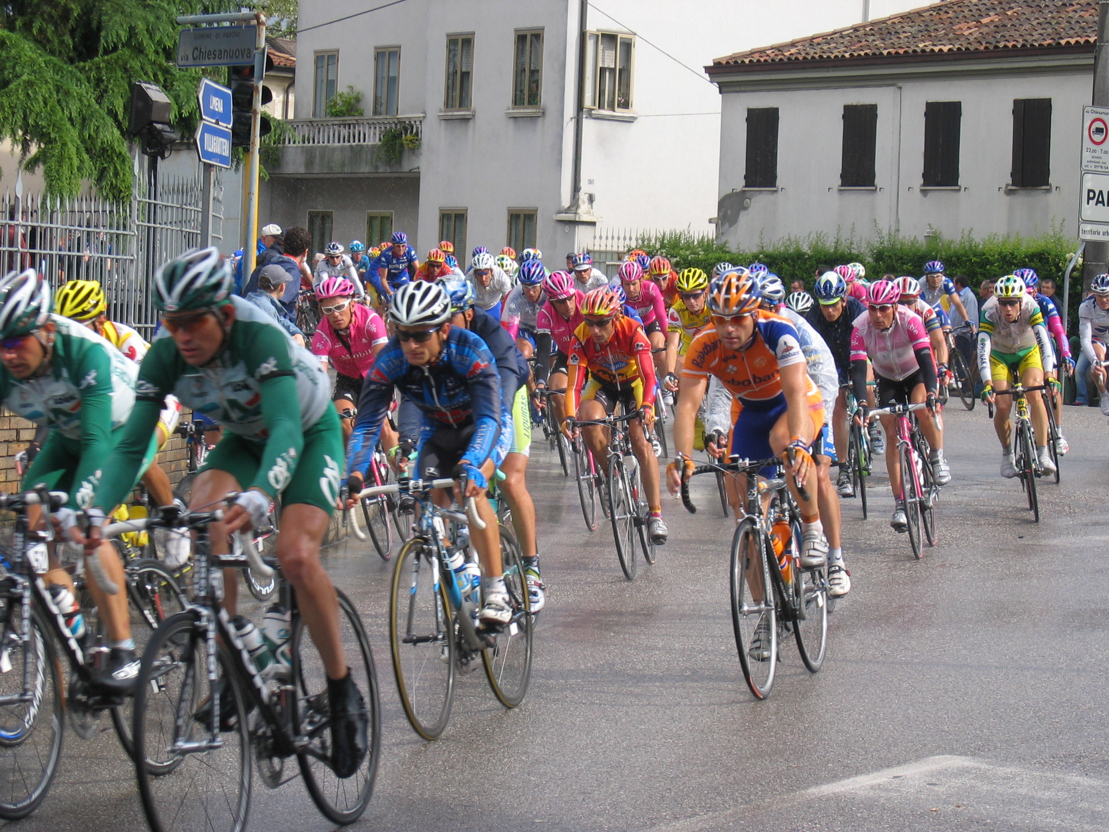 88th Giro d'Italia 2005 - 10th stage, Ravenna-Rossano Veneto